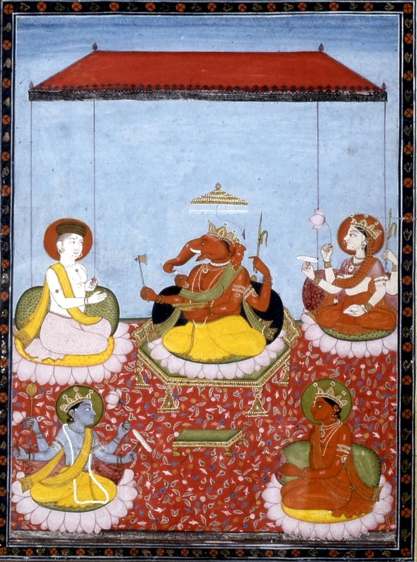 Ganesha with Shiva, Devi (Parvati), Vishnu and Surya